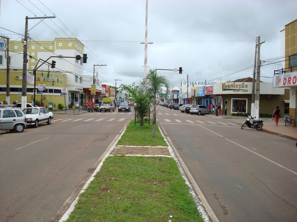 2008_Bernado_Sayao_Paraiso_do_Tocantins